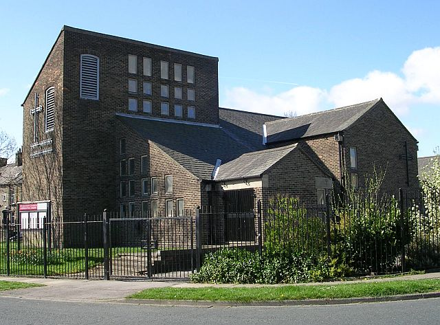 St Saviour's parish church, Ings Way, Fairweather Green, West Yorkshire